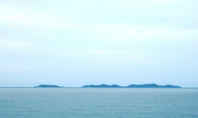 Los Frailes Islands. Dependencias Federales. Venezuela.